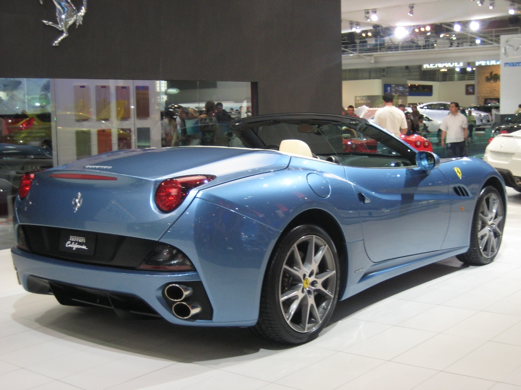 Ferrari California at the 2008 Australian International Motor Show.